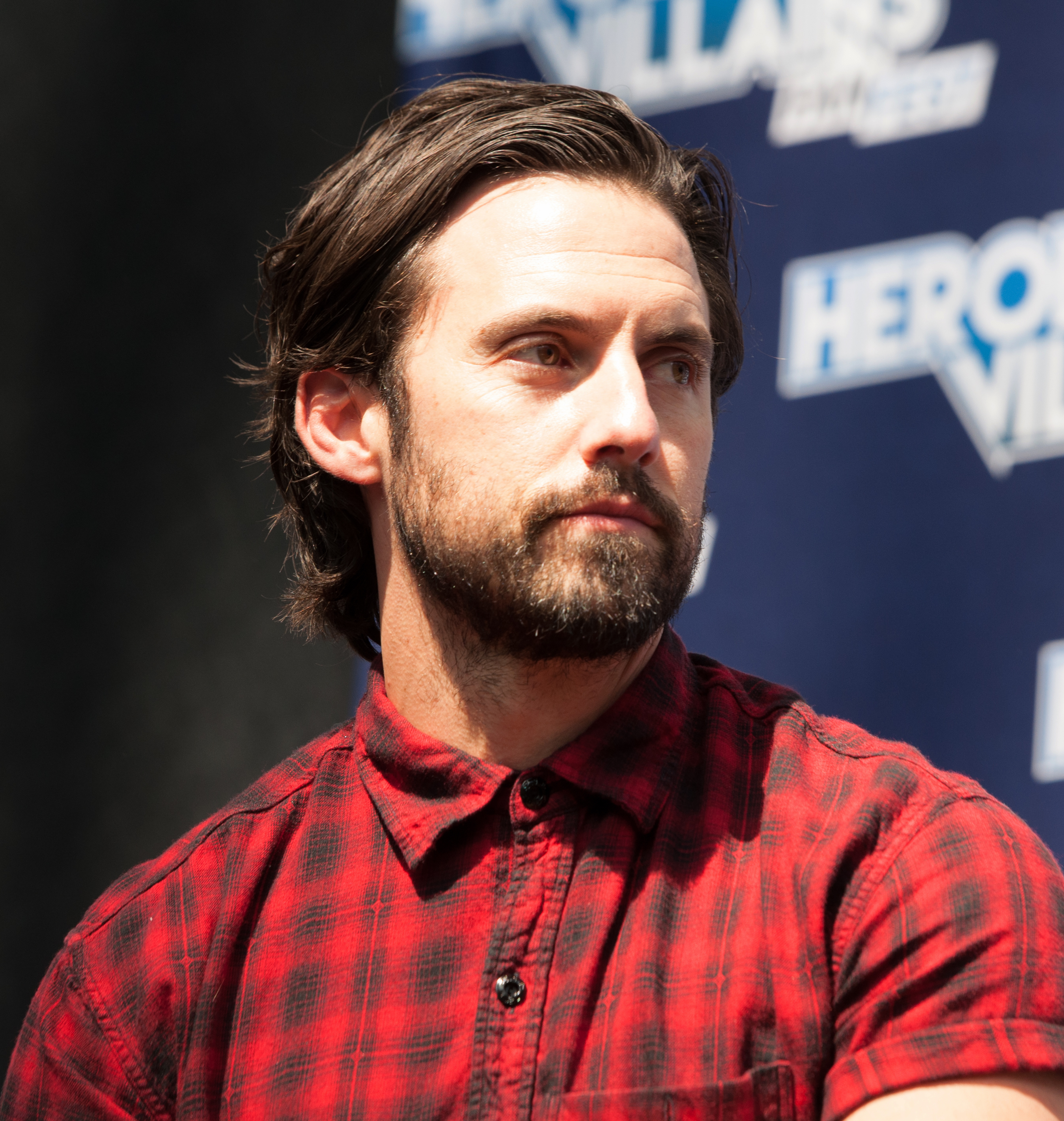 Milo Ventimiglia, 2017